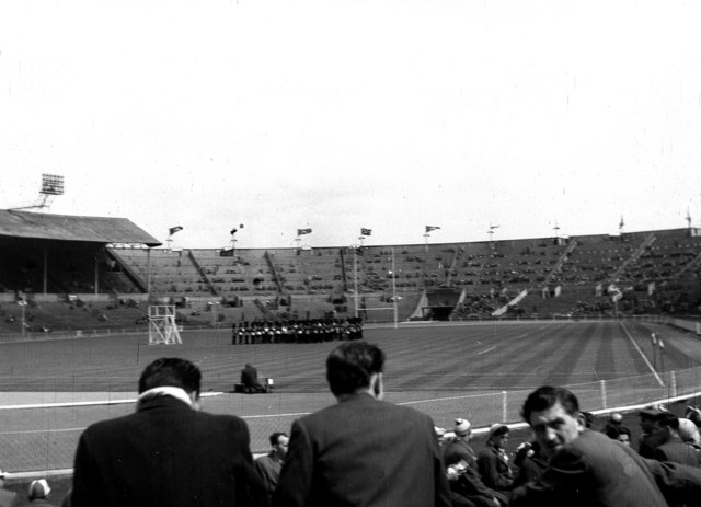 Wembley Stadium, 1956 - A brass band entertains the crowd before the start of the Rugby League Cup Final.